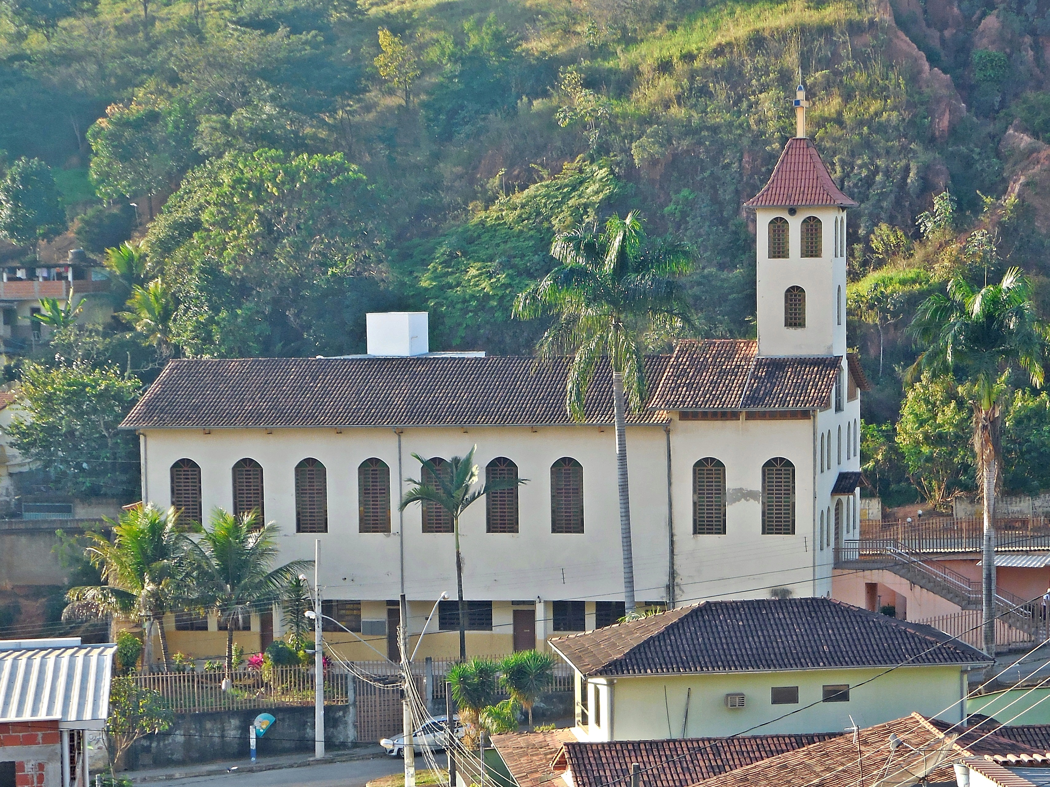 View of the Our Lady of Lourdes Church, in Coronel Fabriciano, Minas Gerais, Brazil.